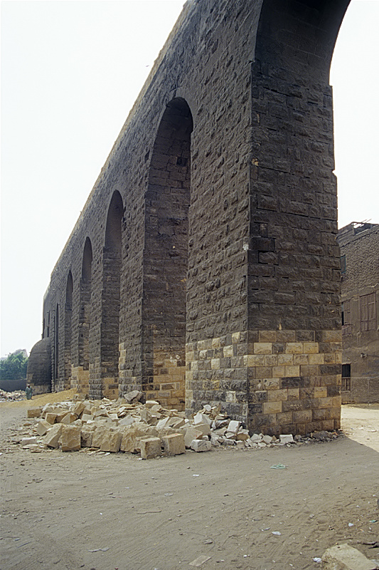 Aqueduct, Old Cairo, Egypt